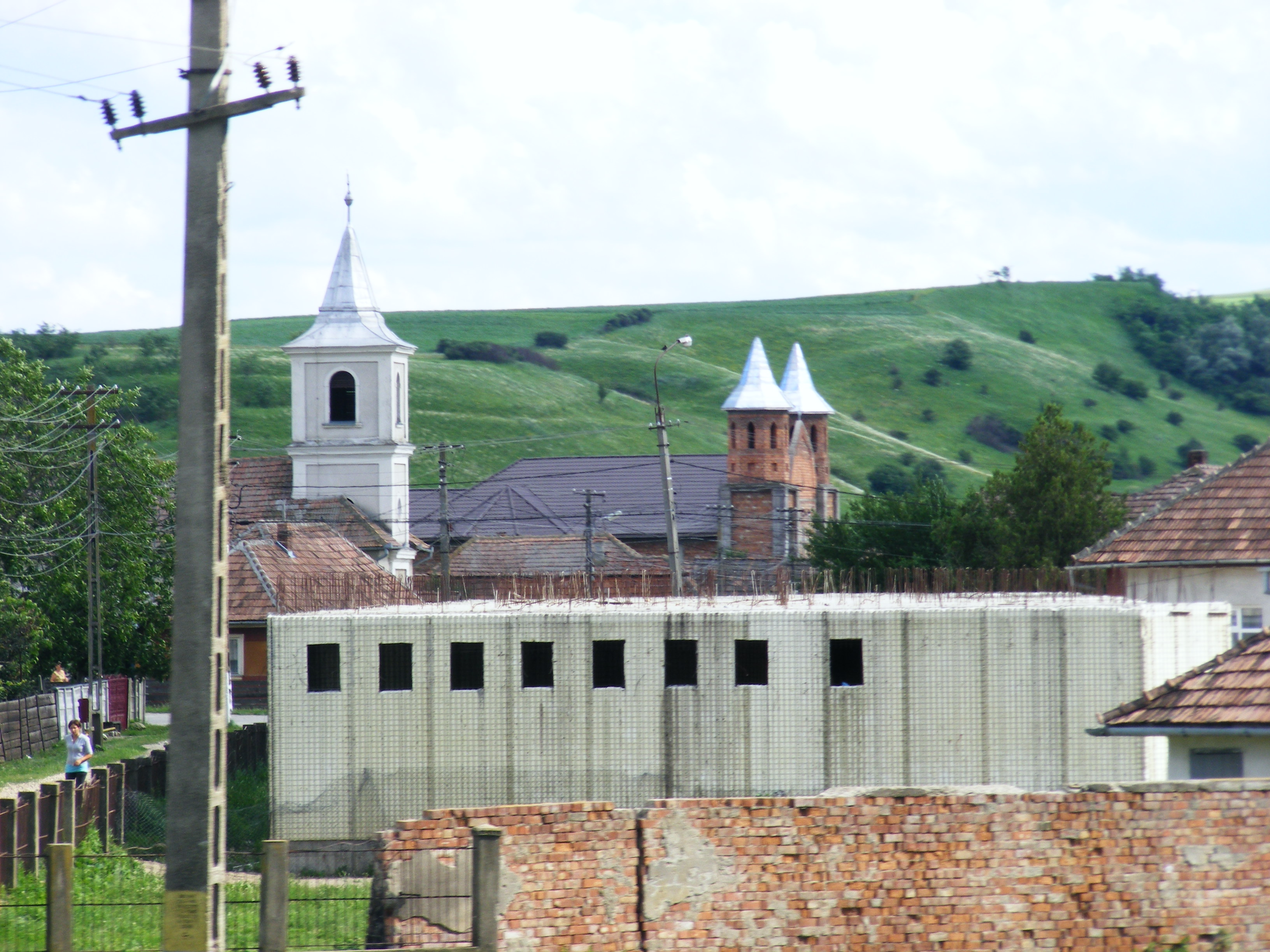 Ortodoxian churches in Cheţani (Maroskece)